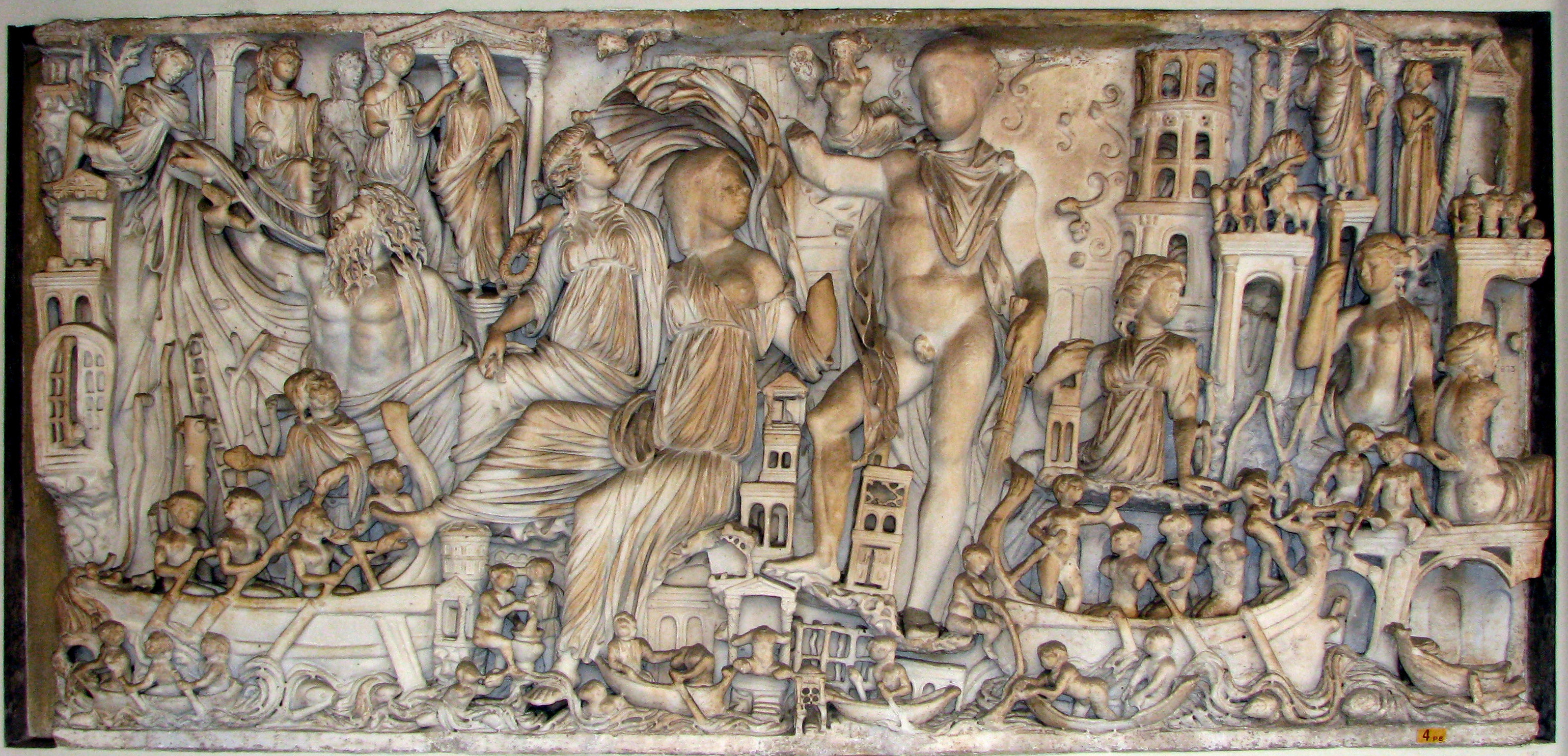 Large sarcophagus relief showing a harbor scene. The two central figures are unfinished, indicating that this was to be finished with the details of the person to be buried at a later stage. Mid 3rd century AD. Currently in the Vatican Museum